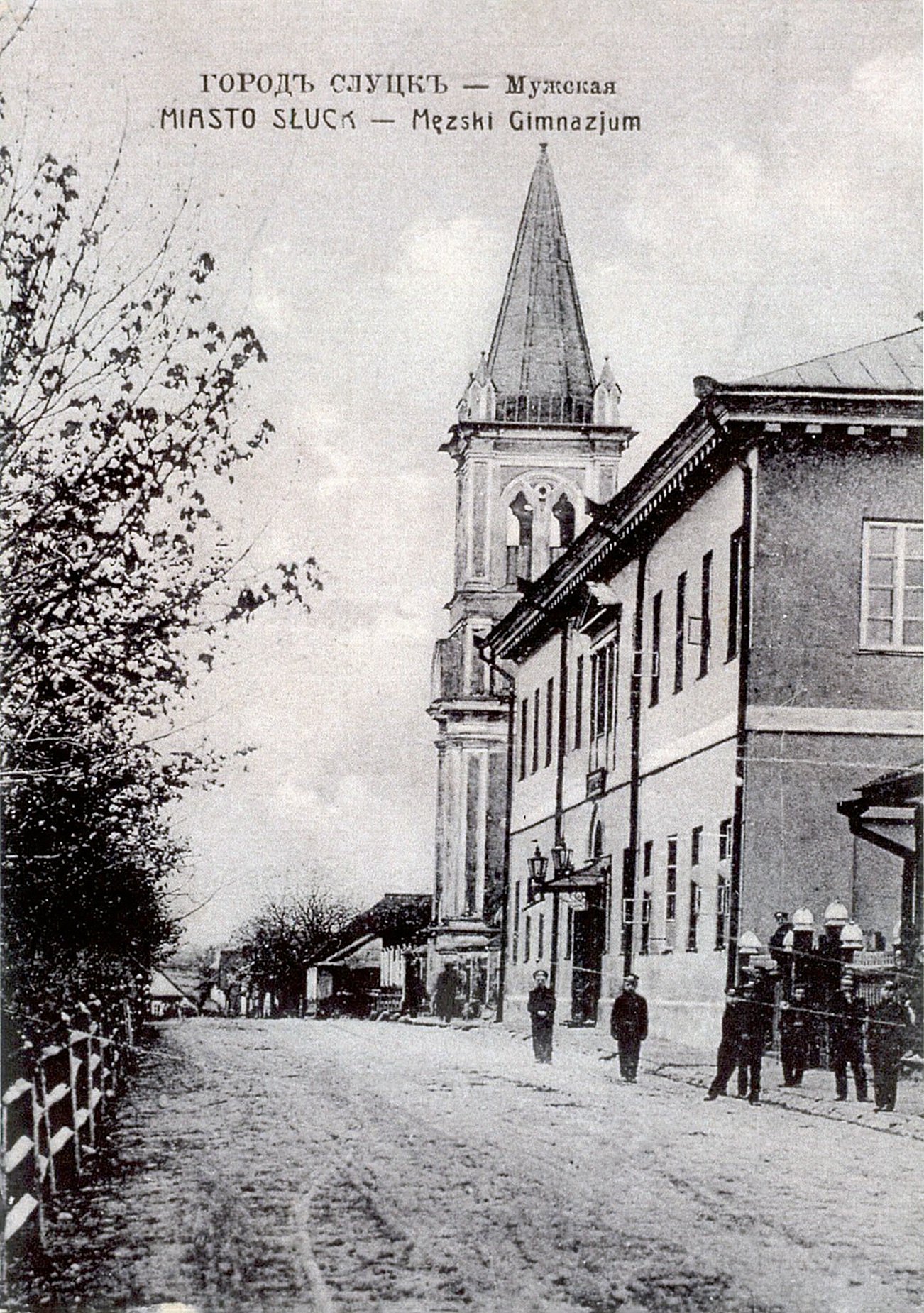 Gymnasium in Słucak, Belarus